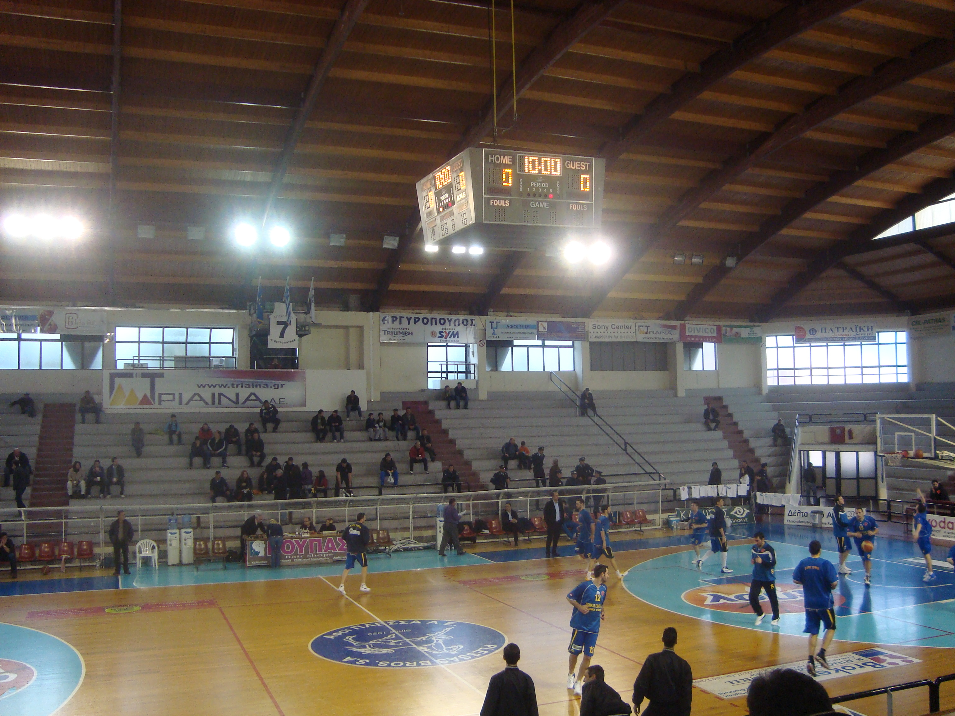 Apollon Patras Palais des Sports